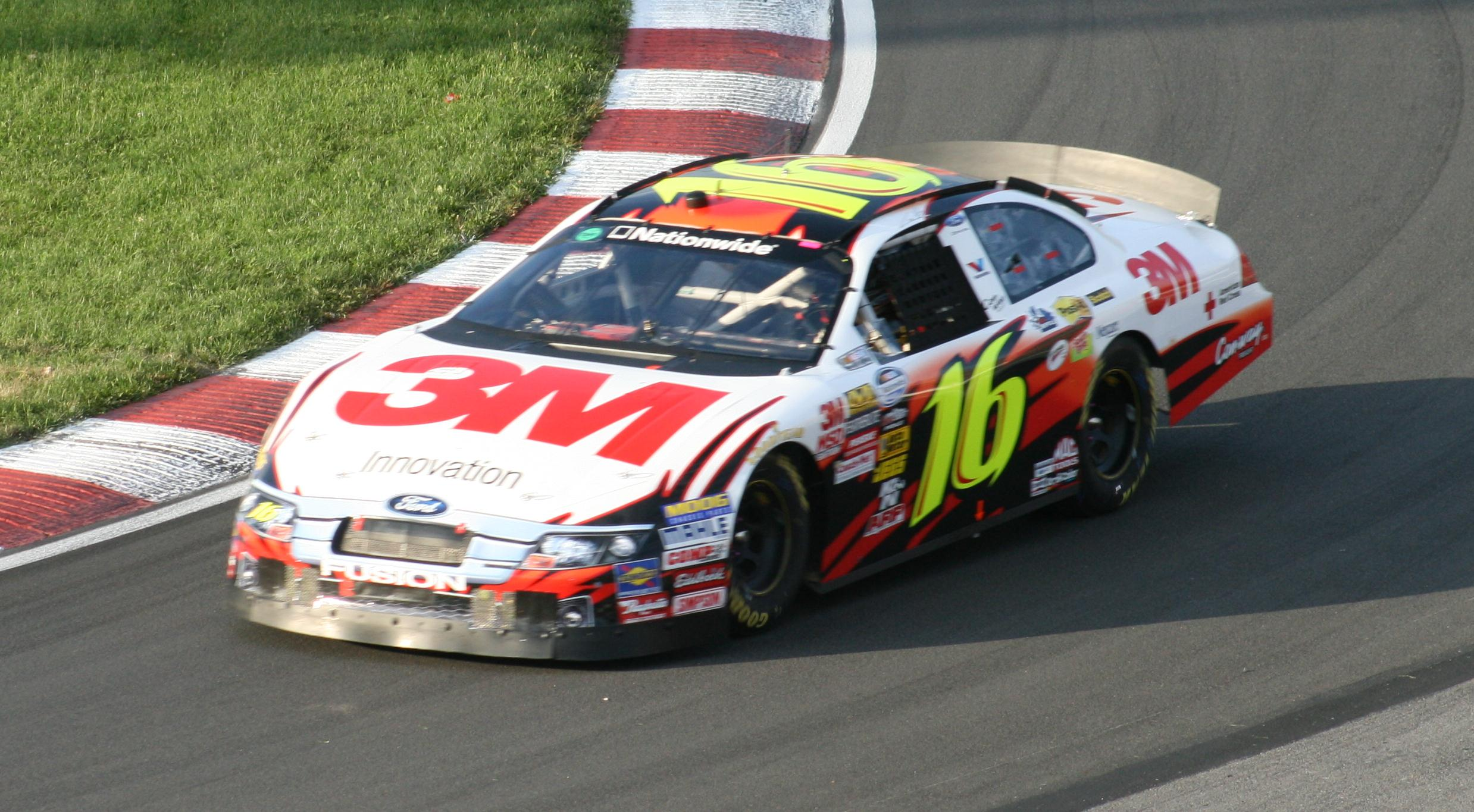 Colin Braun in the qualification for the 2010 NAPA Auto Parts 200 at the Circuit Gilles Villeneuve in Montreal.